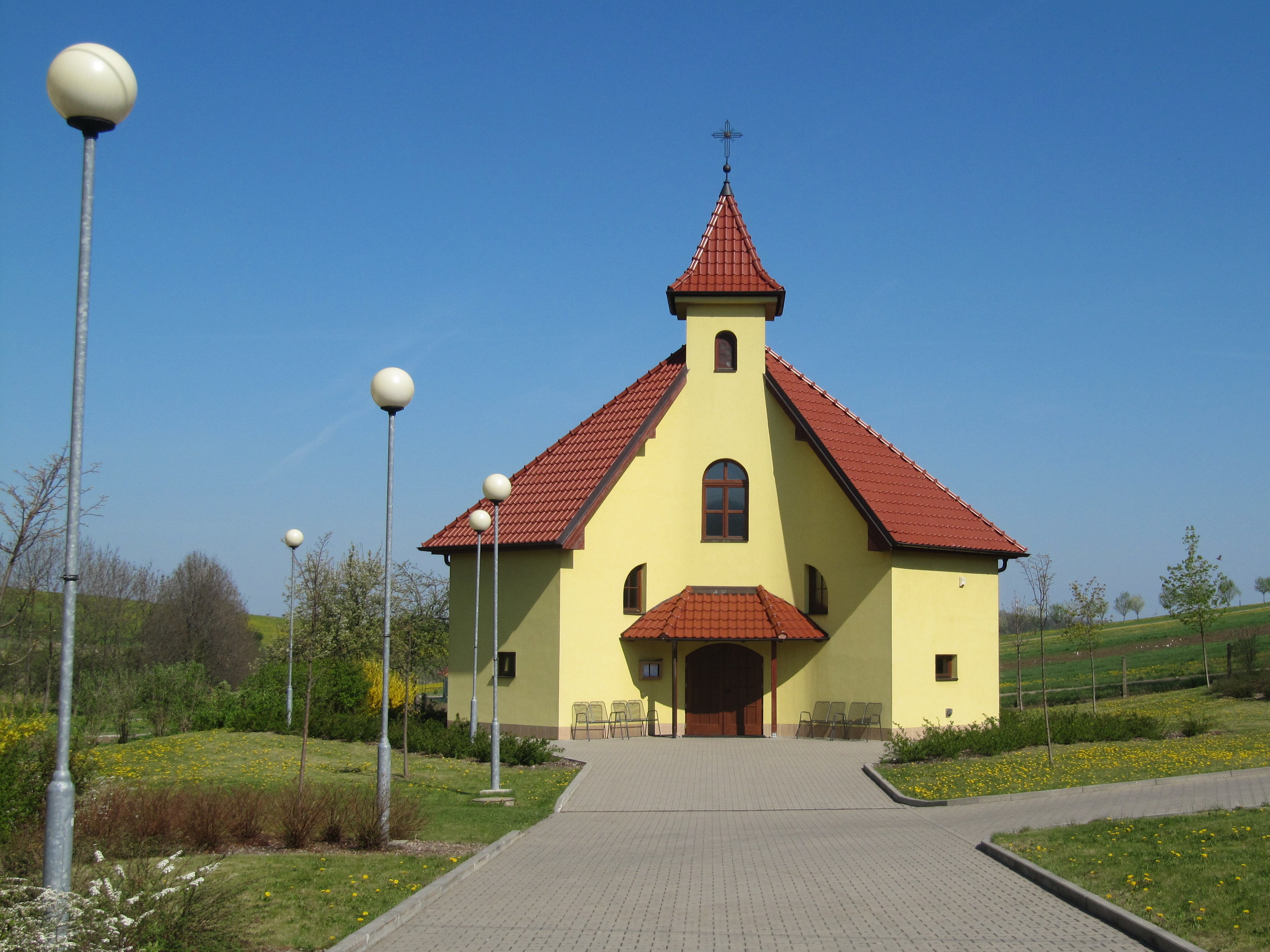 Suchov in Hodonín District, Czech Republic. Church of Saint Lucas.